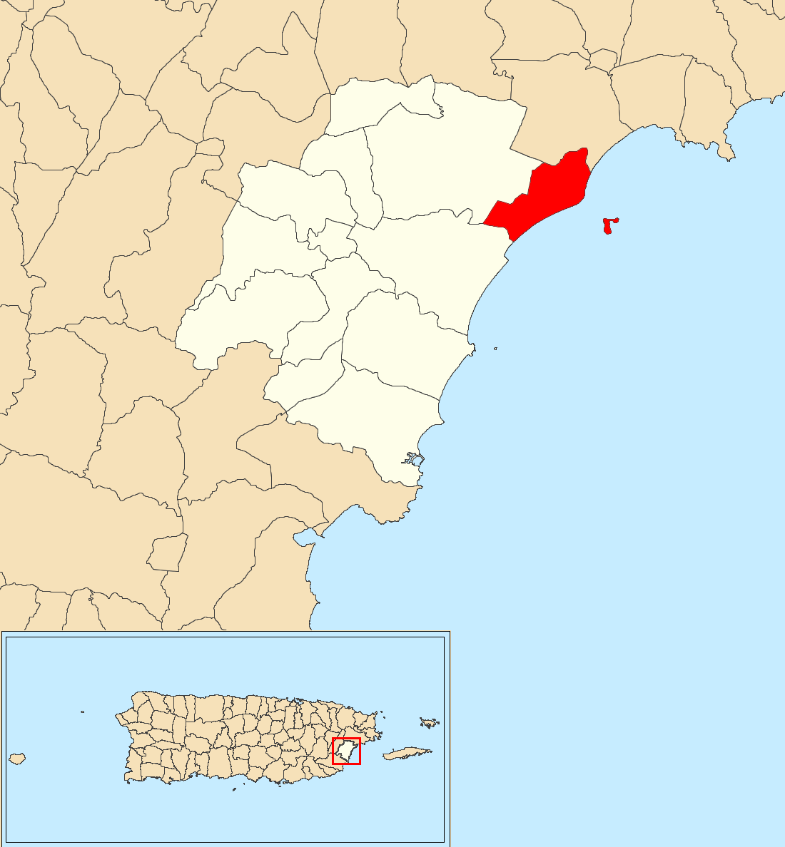 Punta Santiago, Humacao, Puerto Rico locator map